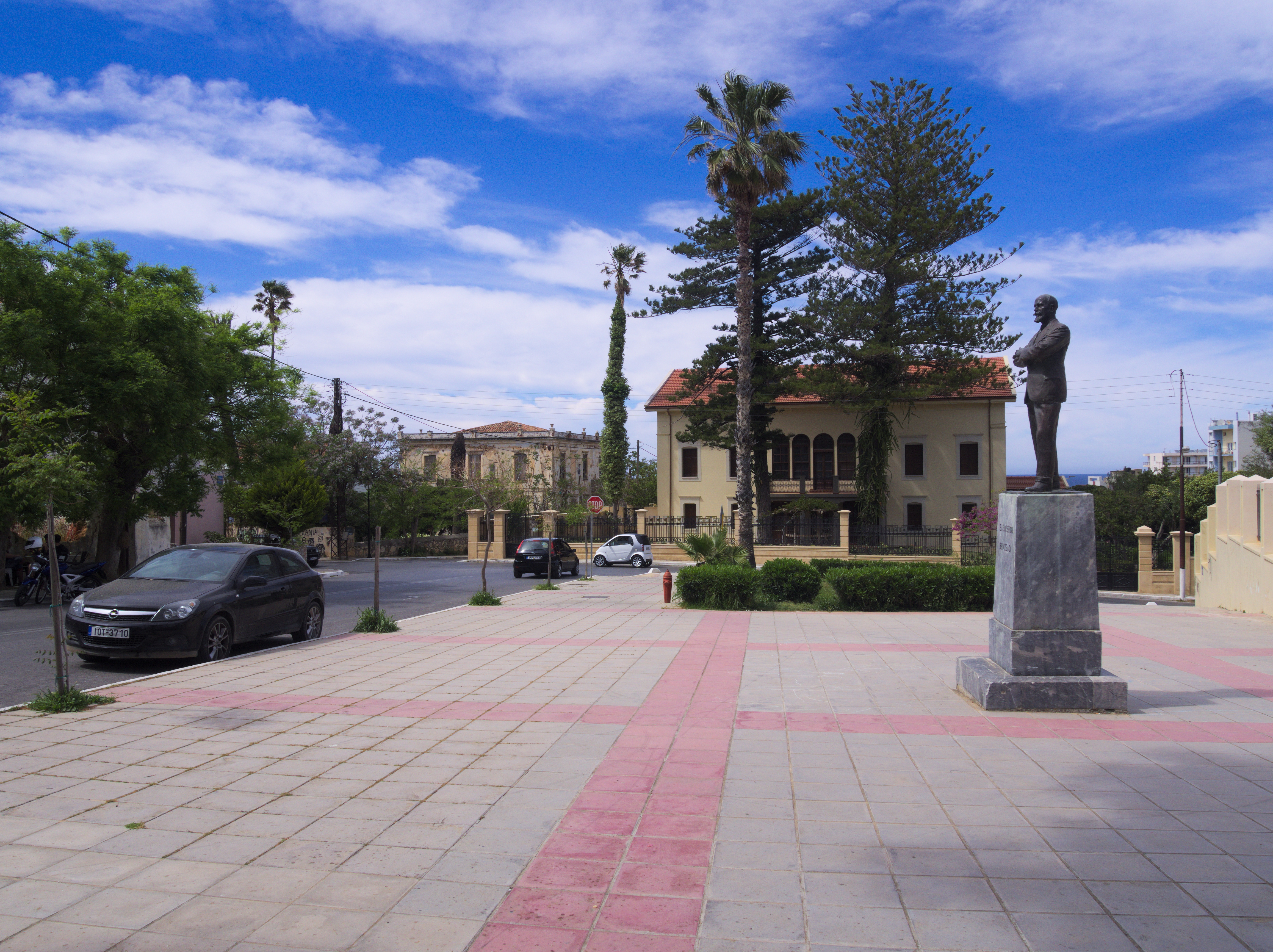 The square of Elena Venizelou, Chalepa, Chania. From the right to the left, a statue of Eleftherios Venizelos, the house of Eleftherios Venizelos and the "Palace of Chania".